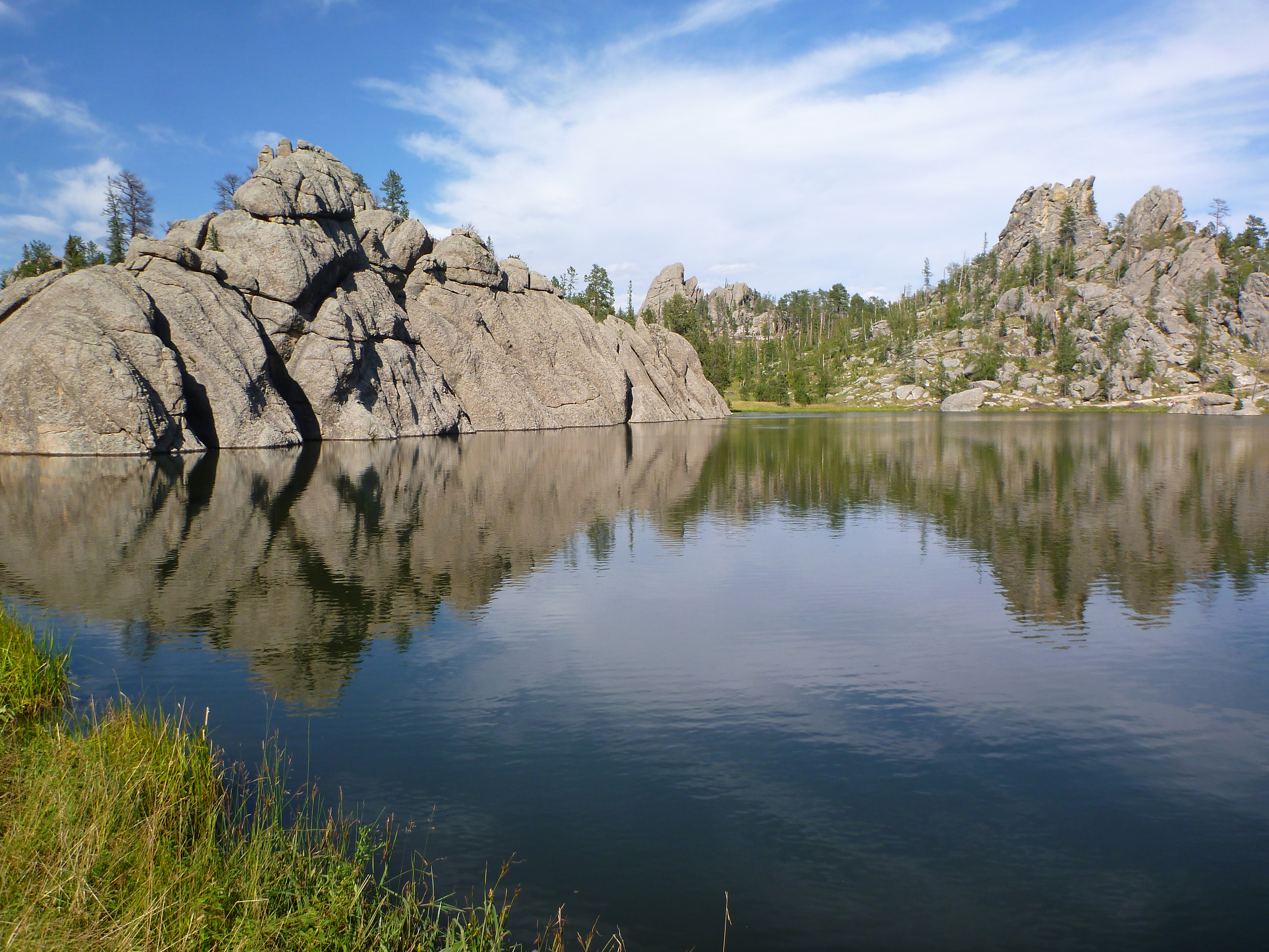 Silent waters on Sylvan Lake, South Dakota